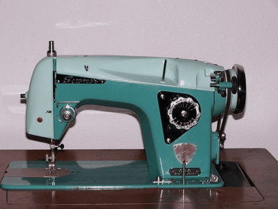 Another attempt to upload this file. I took this photo of a Sewmor 620 for my Wiki article regarding the historic sewing machine.